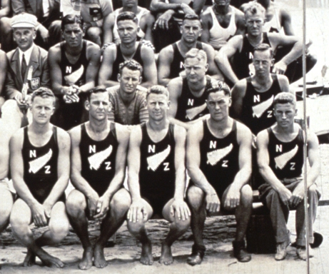 The New Zealand rowing team at the 1932 Summer Olympics in Los Angeles. Photo is cropped from a photo from the Library of Congress of all the rowing teams competing at the 1932 Olympics.